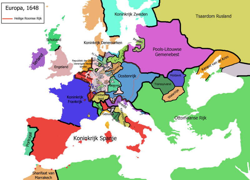 Europe after the Peace of Westphalia, 1648, Dutch version